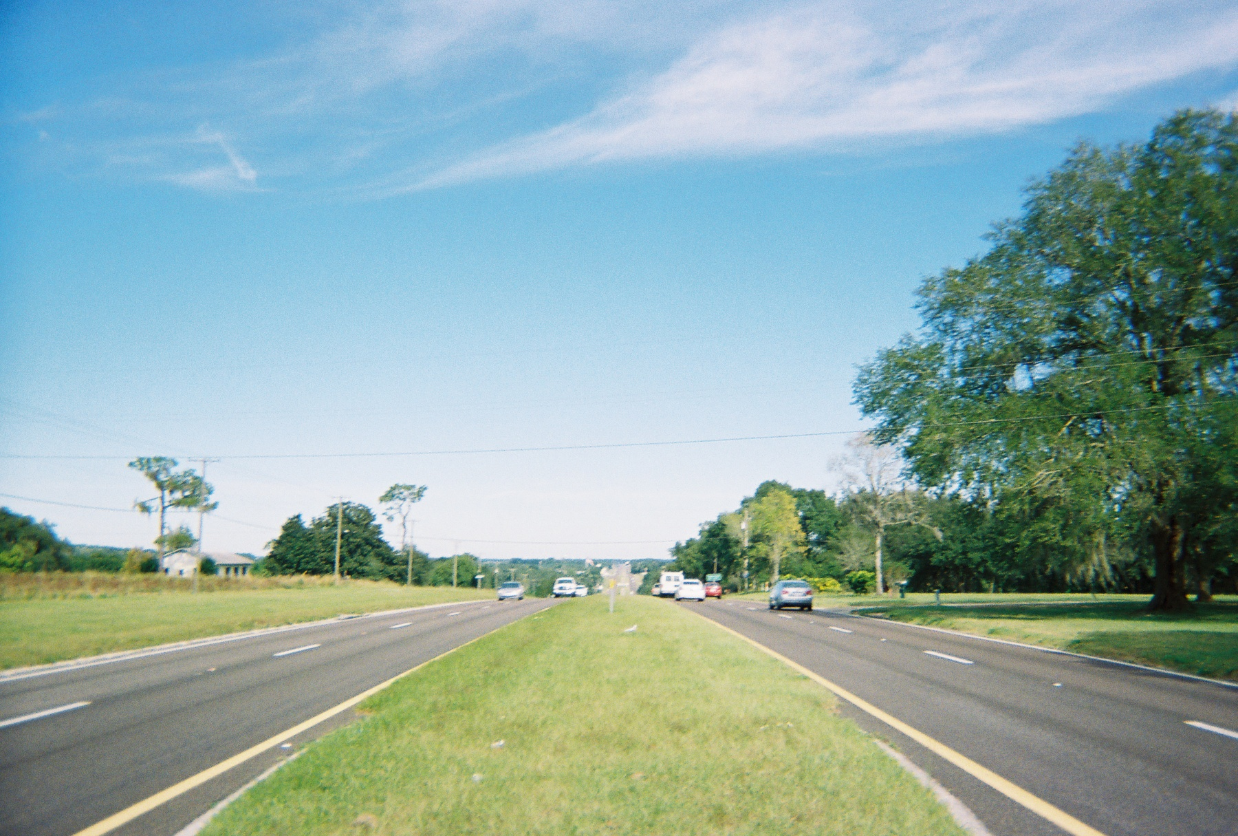 Perhaps the highest of one of many steep hills on U.S. 301 between Zephyrhills and Dade City, Florida. This view is looking north towards Dade City, and as with many of the median openings, it lacks left-turn lanes.